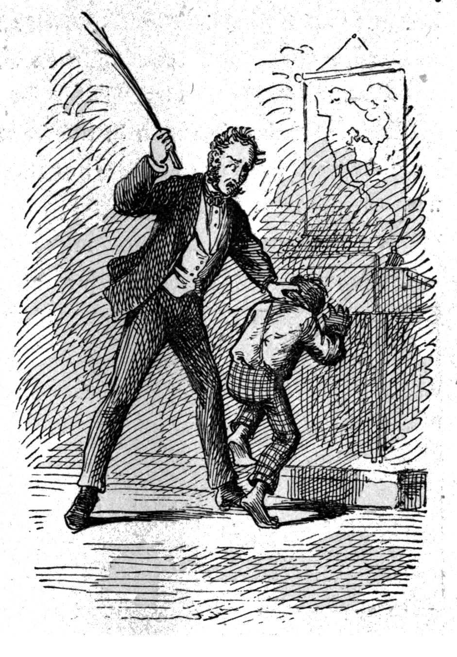 Scan of illustration from the book Adventures of Tom Sawyer, written by Mark Twain & illustrated by True Williams (Trueman W. Williams).